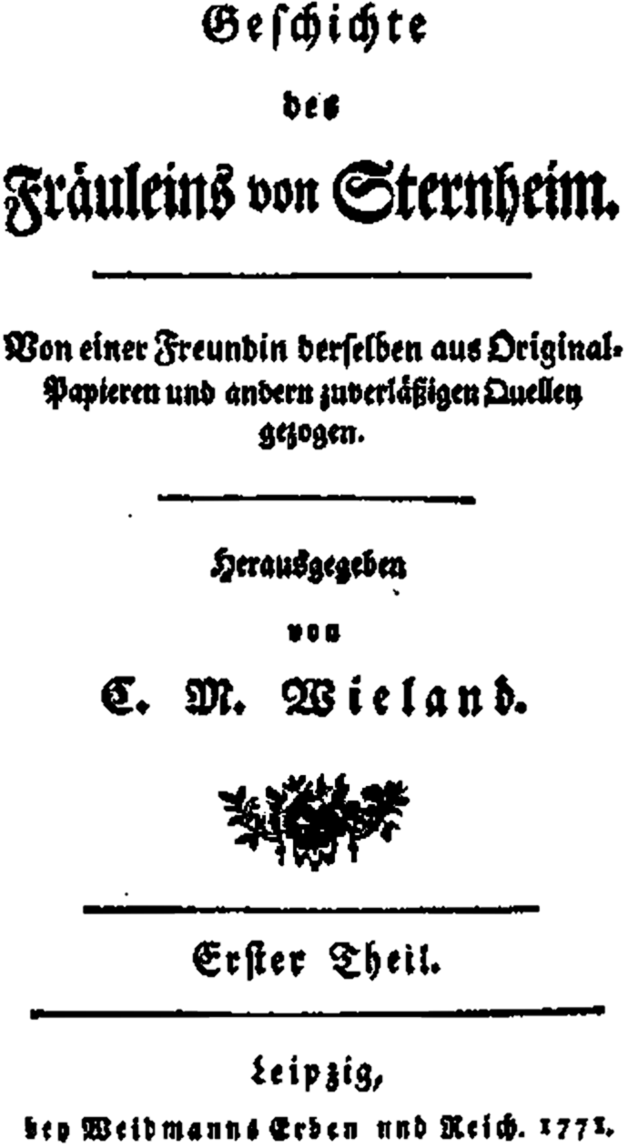 Cover of the original release of Geschichte des Fräuleins von Sternheim